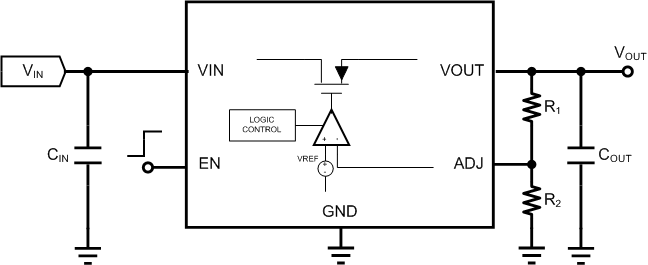 Low Dropout Regulator Typical Circuit Diagram with Simplified Internal Block Diagram. The IC connections correspond to the high current linear regulator IC SPX1580 made by SIPEX.